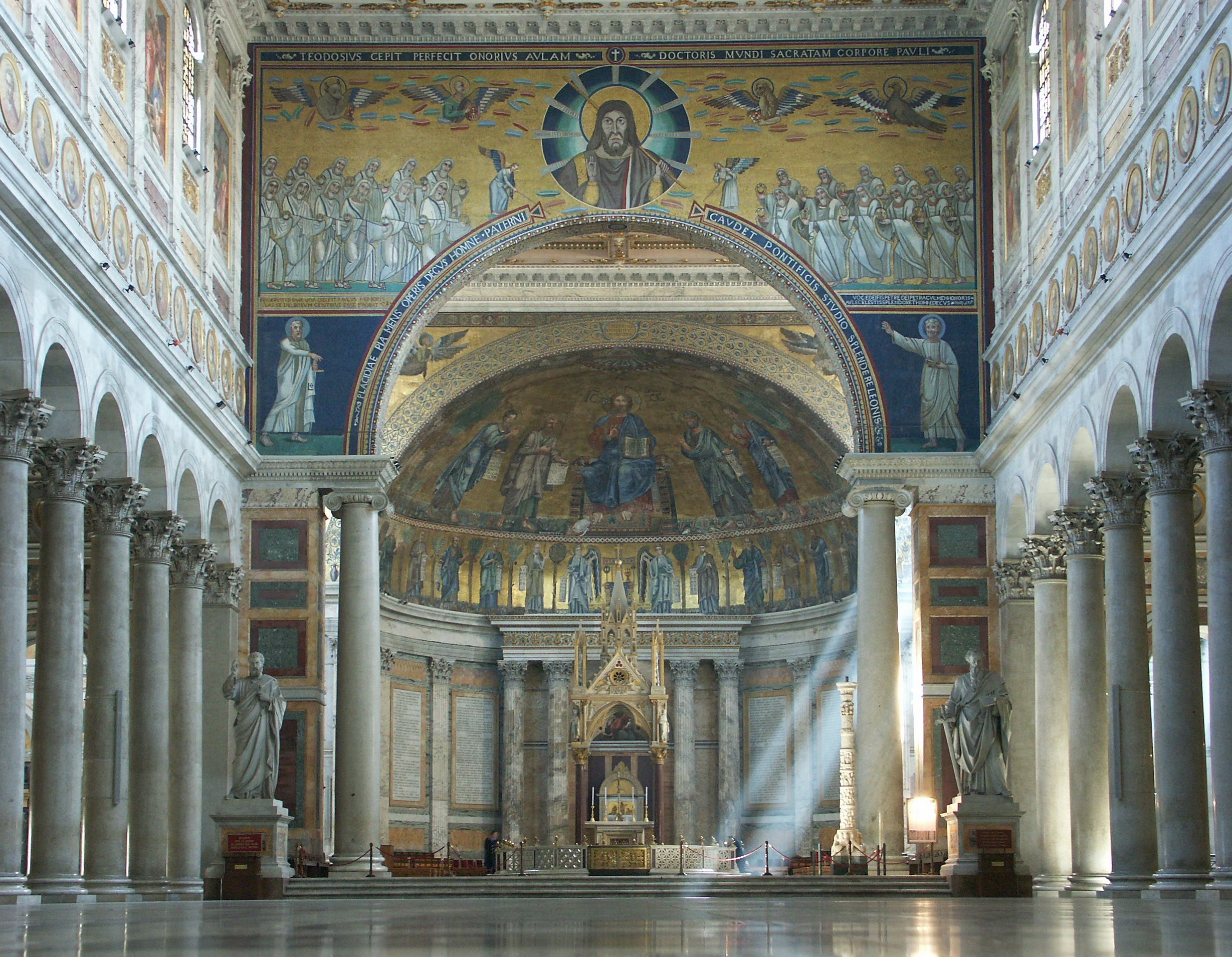 Rome, Interior of Basilica of Saint Paul Outside the Walls